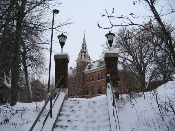 This is a view of the Martin Luther College's "Old Main," the original classroom building and oldest building on the campus. The view is from the stair entrance off of Summit Ave, near Center St.